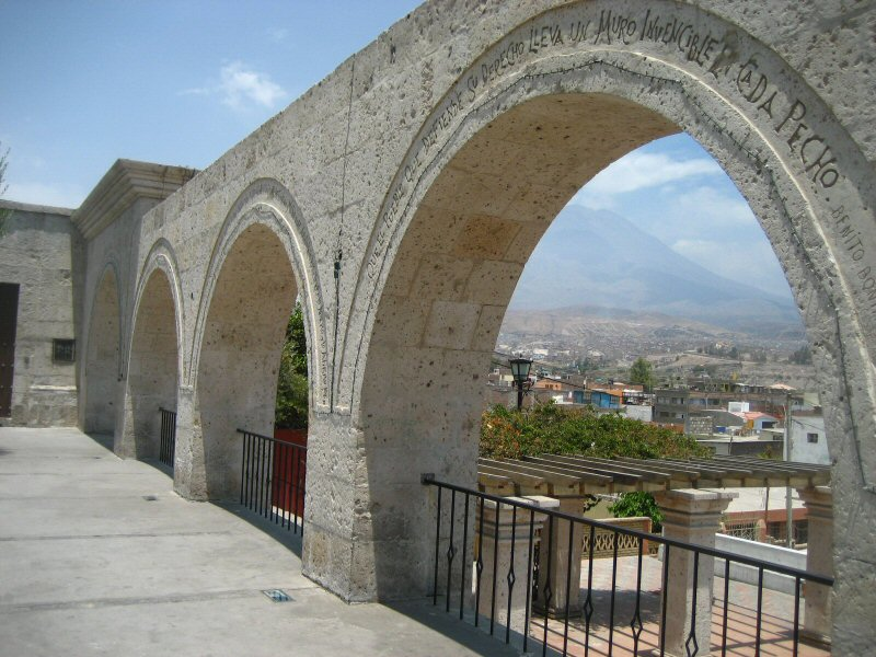 The city of Arequipa (Peru), from the Yanahuara mirador, with the Misti volcano in background.